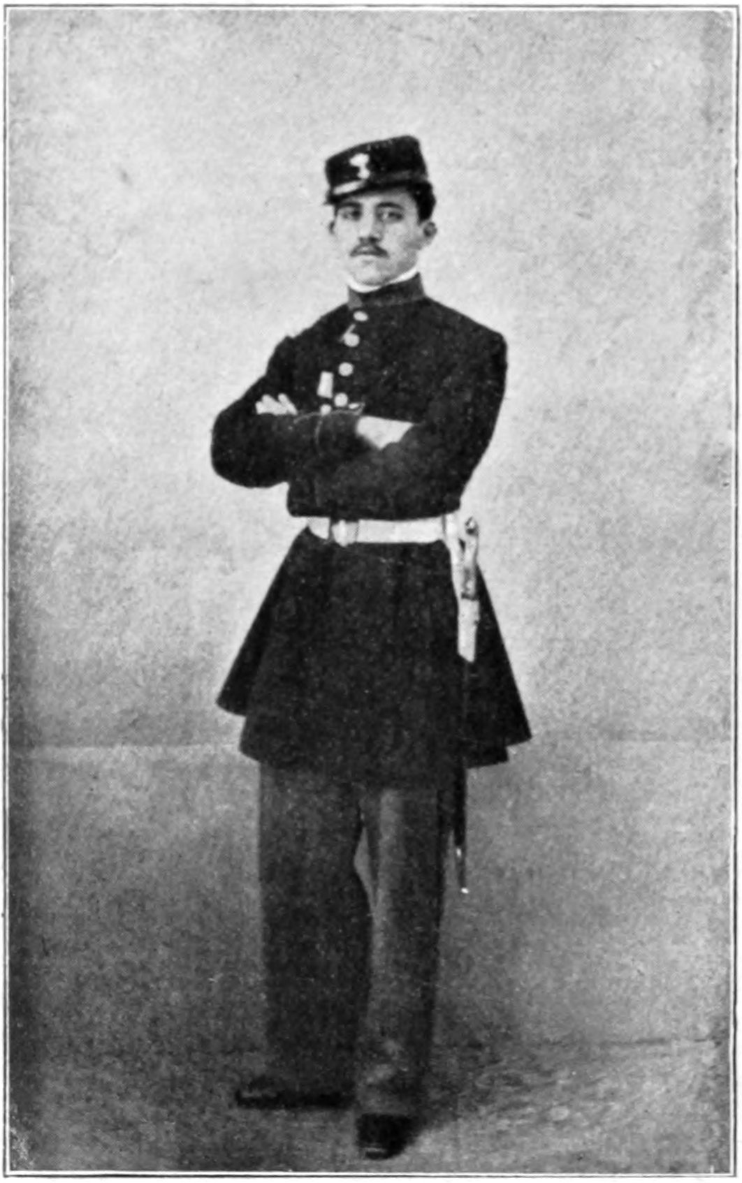 Image from book: Leopoldo Pullè, Patria Esercito Re, Ulrico Hoepli, Milan, 1908. - Enrico Cairoli